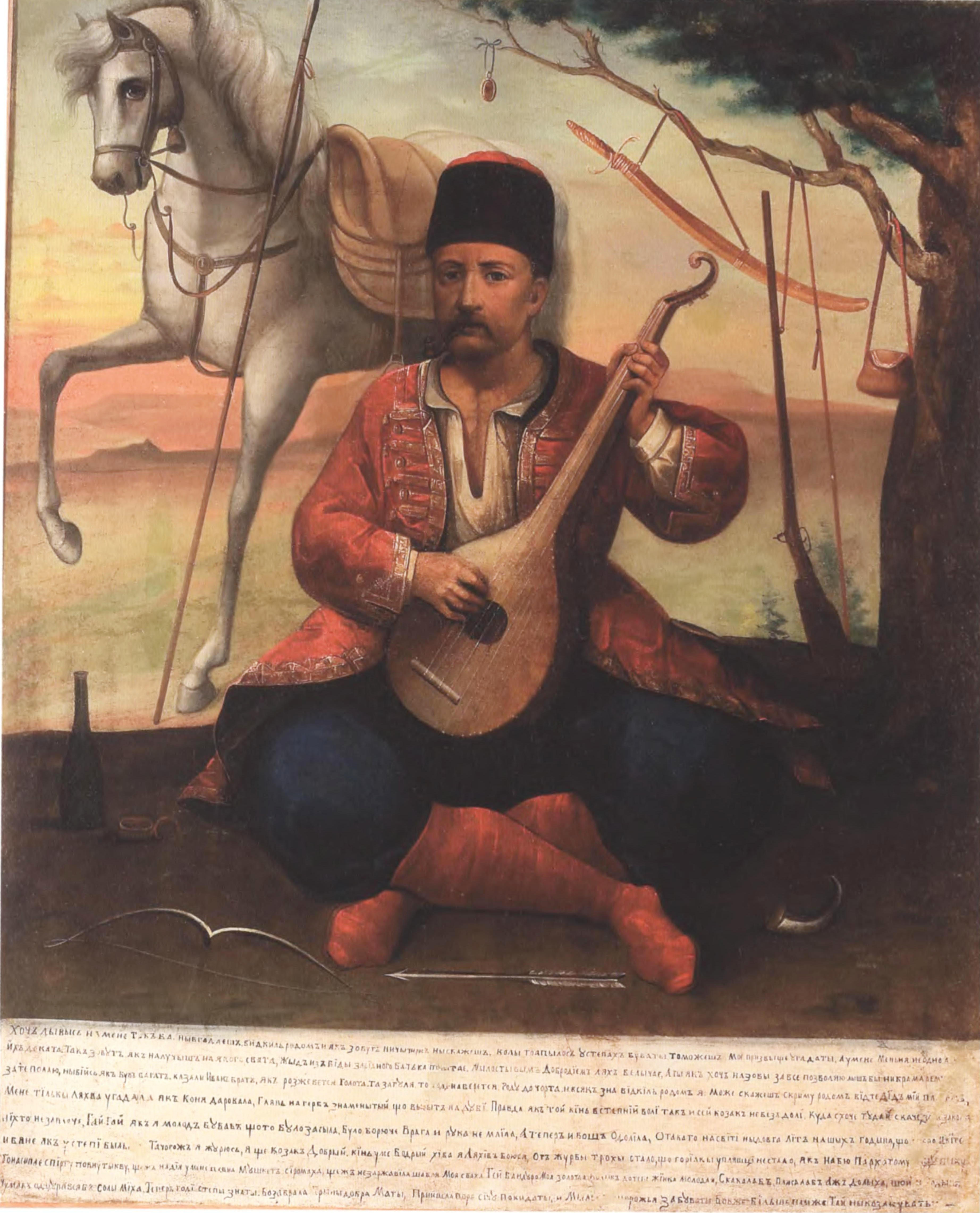 Kozak-bandyrust. Fedir Stovbunenko (2nd half of XIX century). Canvas, oil. 81 х 66. Chernihiv Art Museum